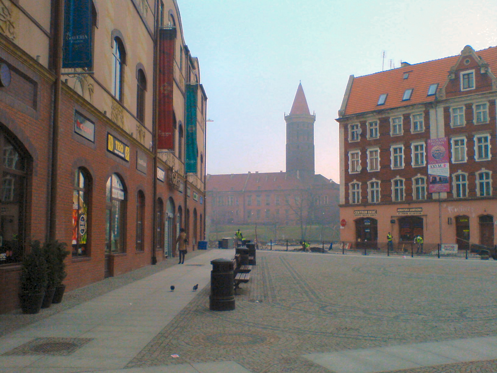 East side of "Galeria Piastow" and Castle Piastowski in background